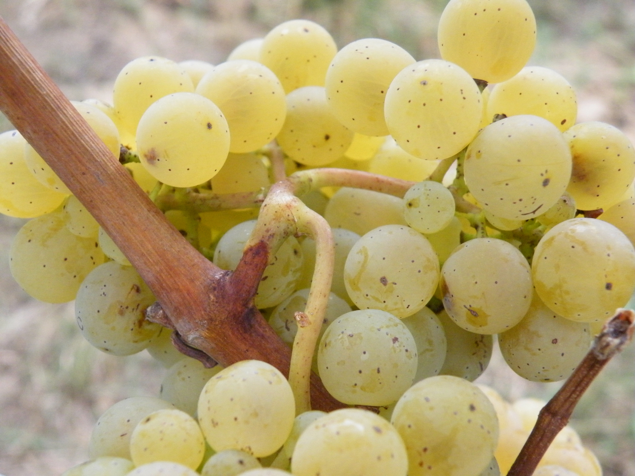 Pick Me! Delicious. Wish you could try. Tastes even better after fermentation, though. THAT you CAN try!